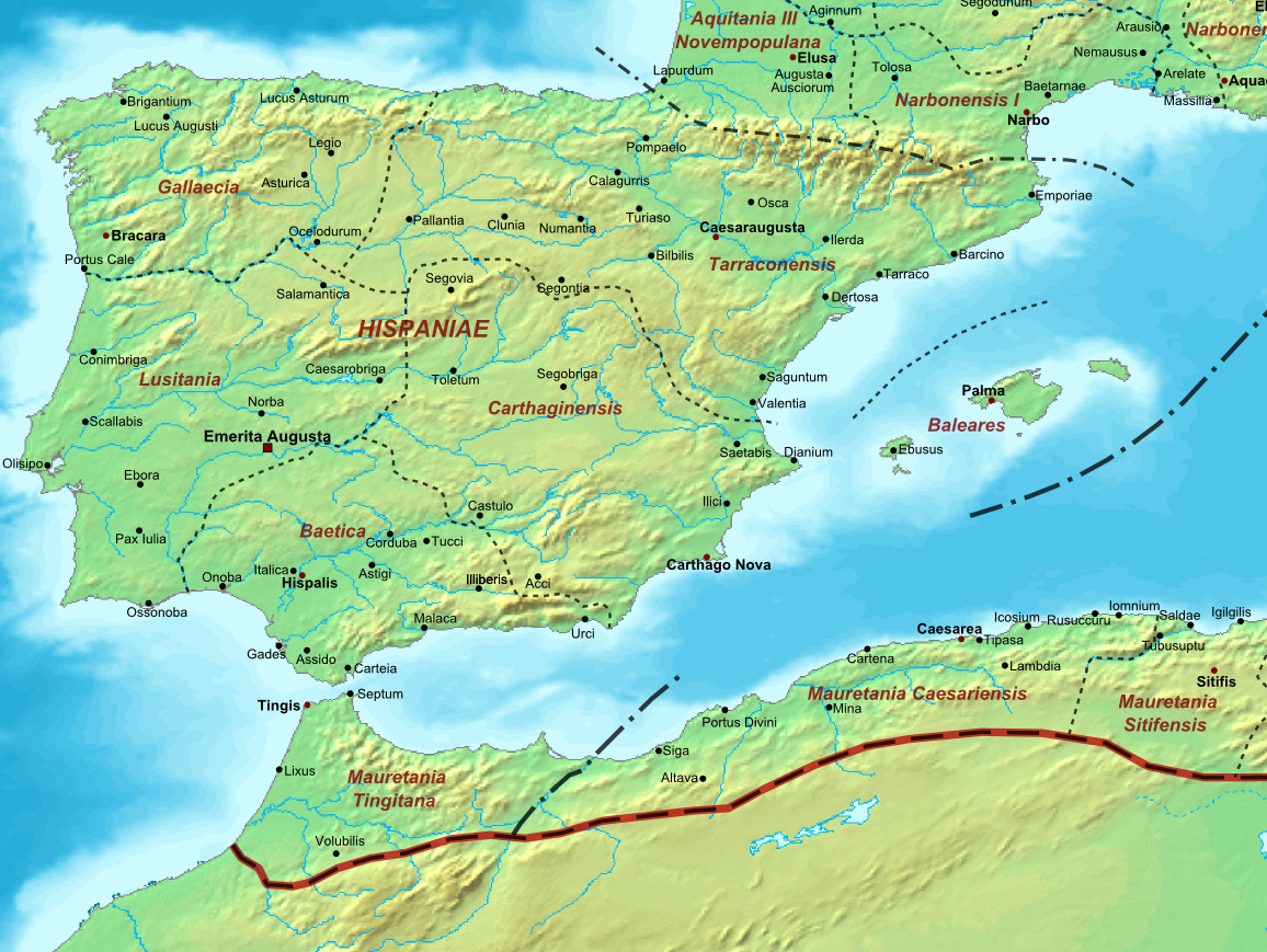 Map of the Roman Empire ca. 400 AD, showing the administrative division into dioceses and provinces, as well as the major cities. The demarcation between Eastern and Western Empires is noted in red.